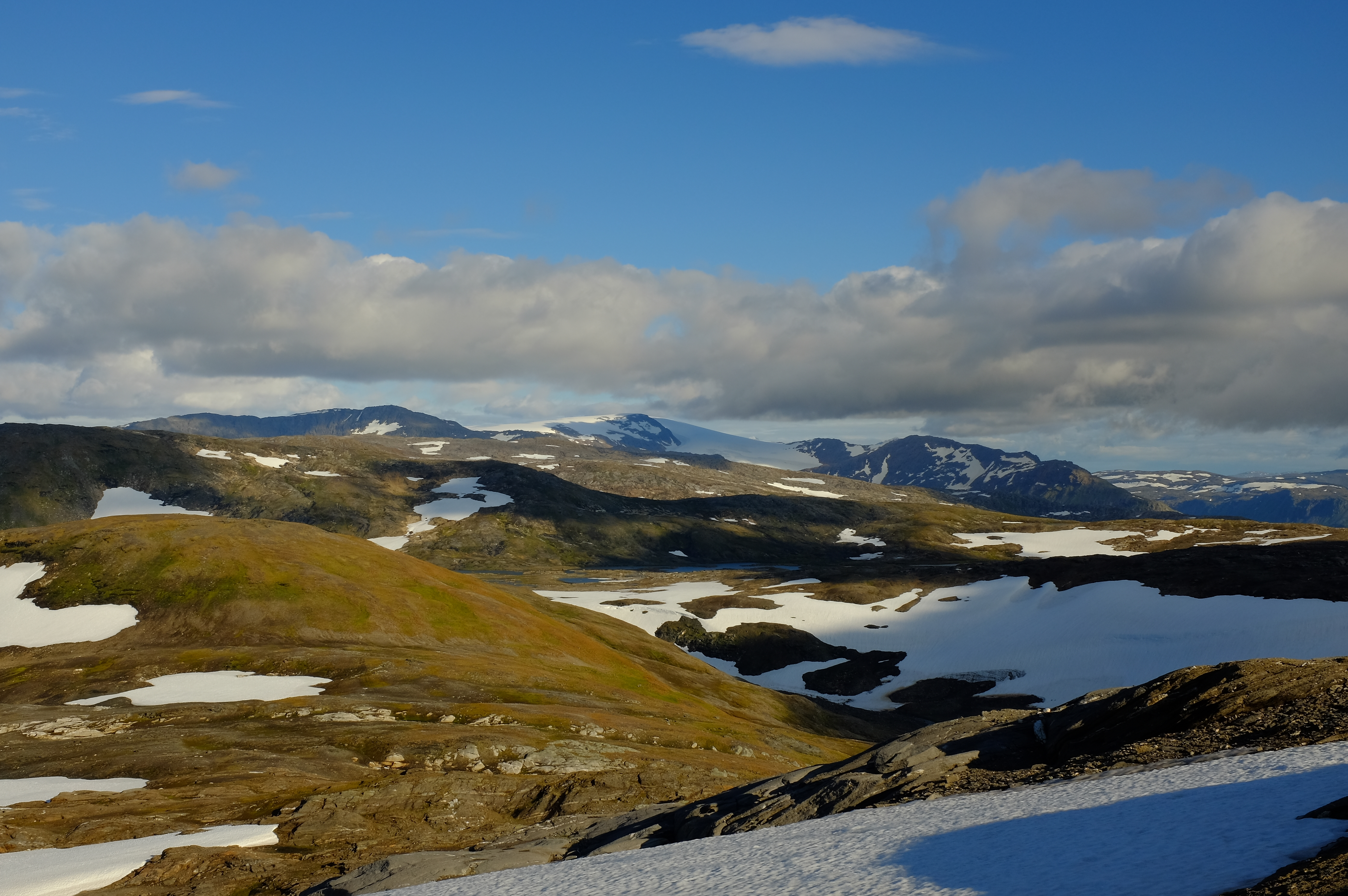 Blåmannsisen is the fifth largest glacier on the Norwegian mainland. Breen is in municipalities Fauske and Sørfold just 2 km from the border with Sweden. Blåmannen summit is a nunatak on the glacier.